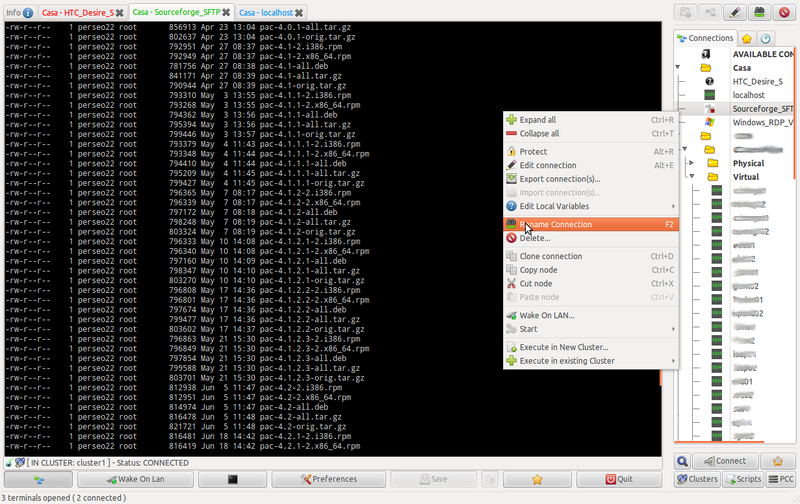 Main tabs page